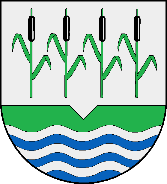 Coat of arms of the municipality Landscheide in Schleswig-Holstein, Germany.